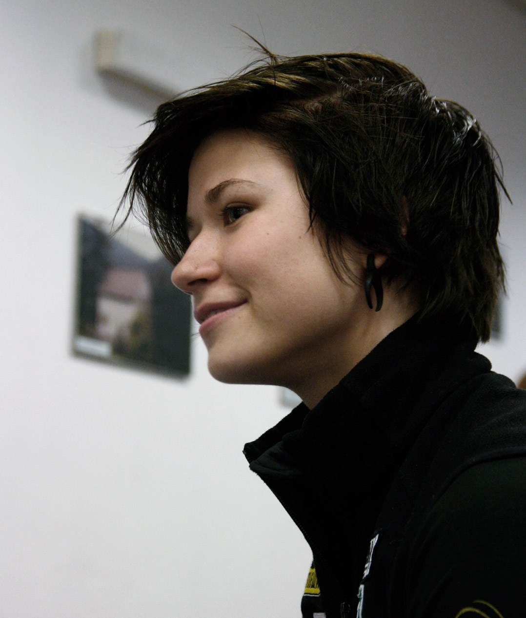 Johanna Ernst at the press conference for the IFSC Boulder Worldcup Vienna 2010 at the Kletterhalle Wien.